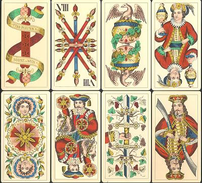 A pack of Trappola cards produced in Wien, Austria, by the card-manufacture Fredinand Piatnik and Sons. From left to right and top to bottom: Ace of Batons 8 of Batons Ace of Cups Jack of Cups Ace of Coins Knight of Coins Ace of Swords King of Swords